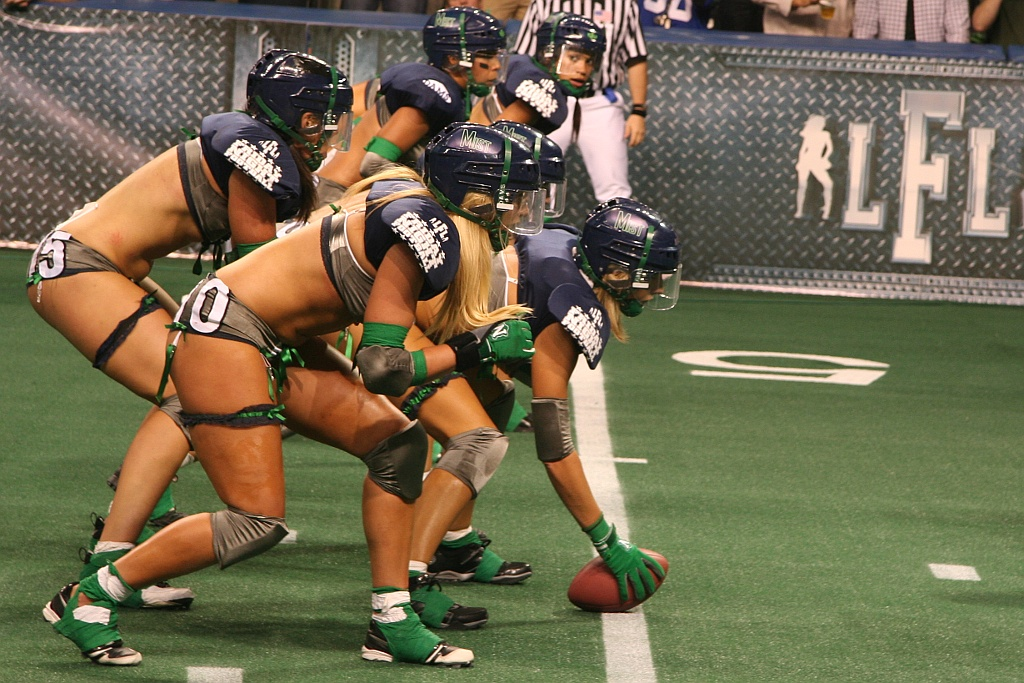 Seattle Mist vs. San Diego Seduction, 11Sep09.